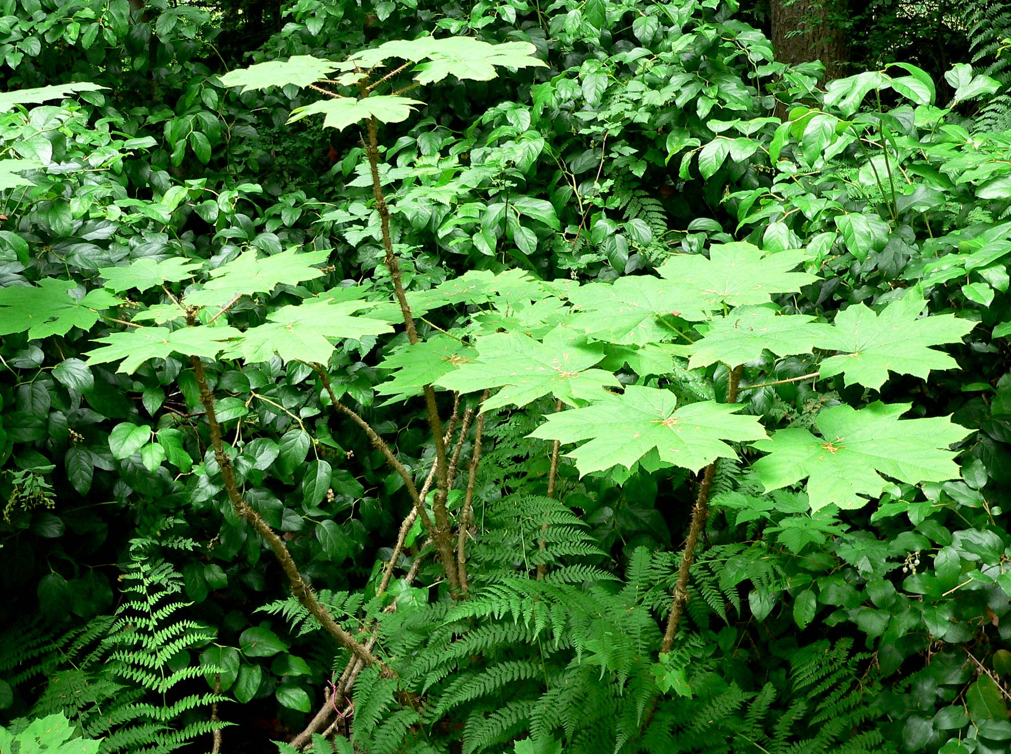 Photo of Oplopanax horridus at the UBC Botanical Garden